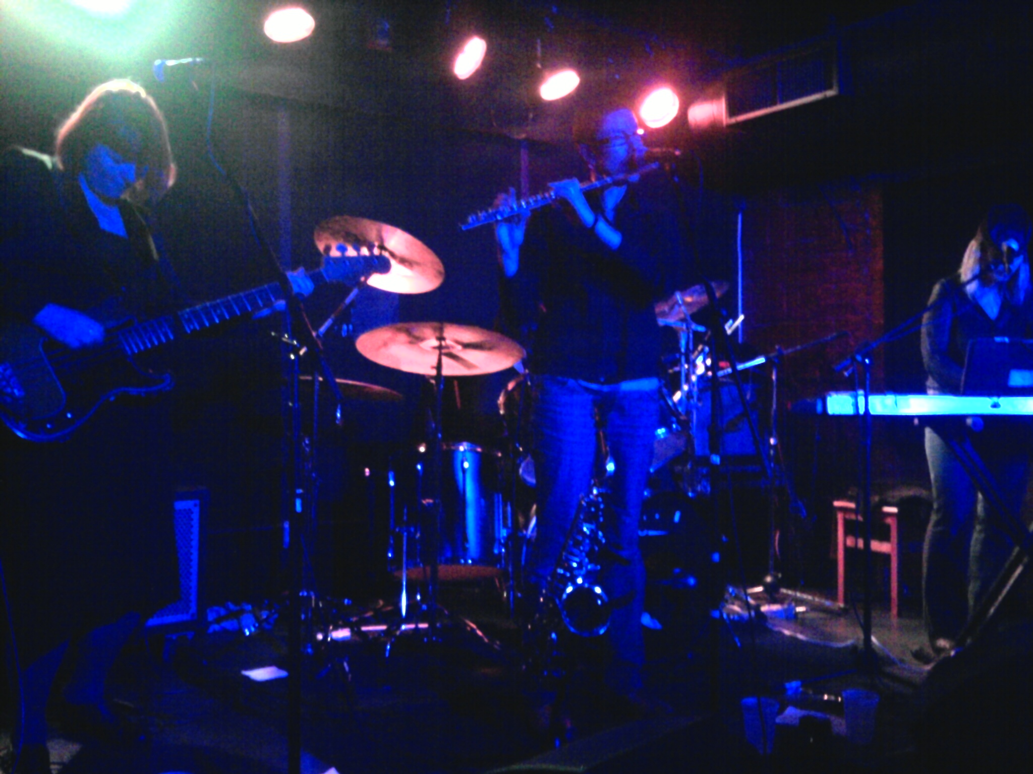 Zuby Nehty live in Brooklyn, NY; 10-01-2010